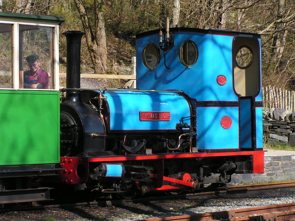 Thomas Bach